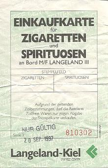 Tax Free ticket